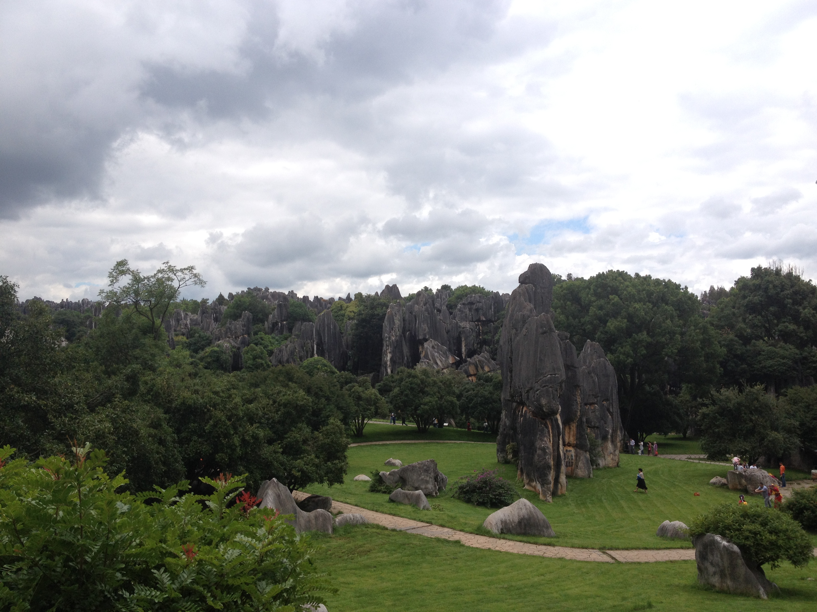 View of the stone forest of Shilin in Yunnan, China near Kunming